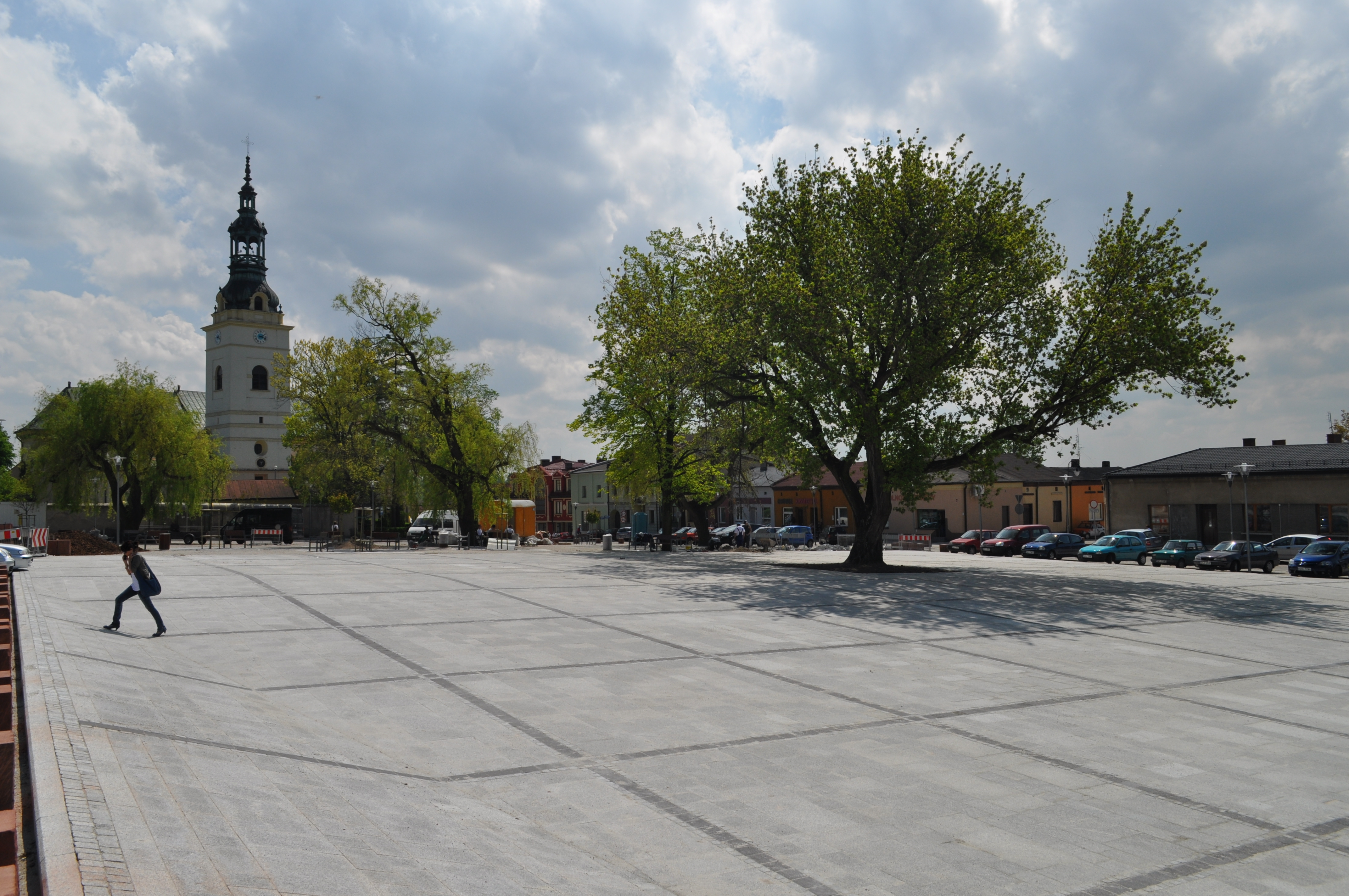 Market place in Kłobuck, Poland